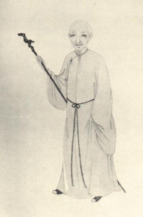 Wei Xi, writer and scholar of the Qing Dynasty.